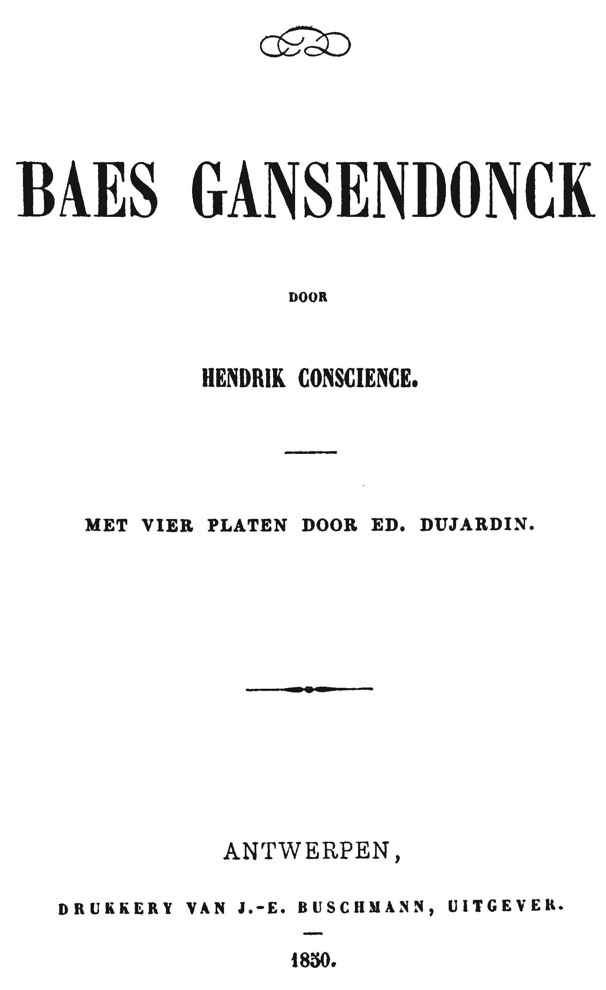 1st page of the novel "Baes Gansendonck" written by Hendrik Conscience